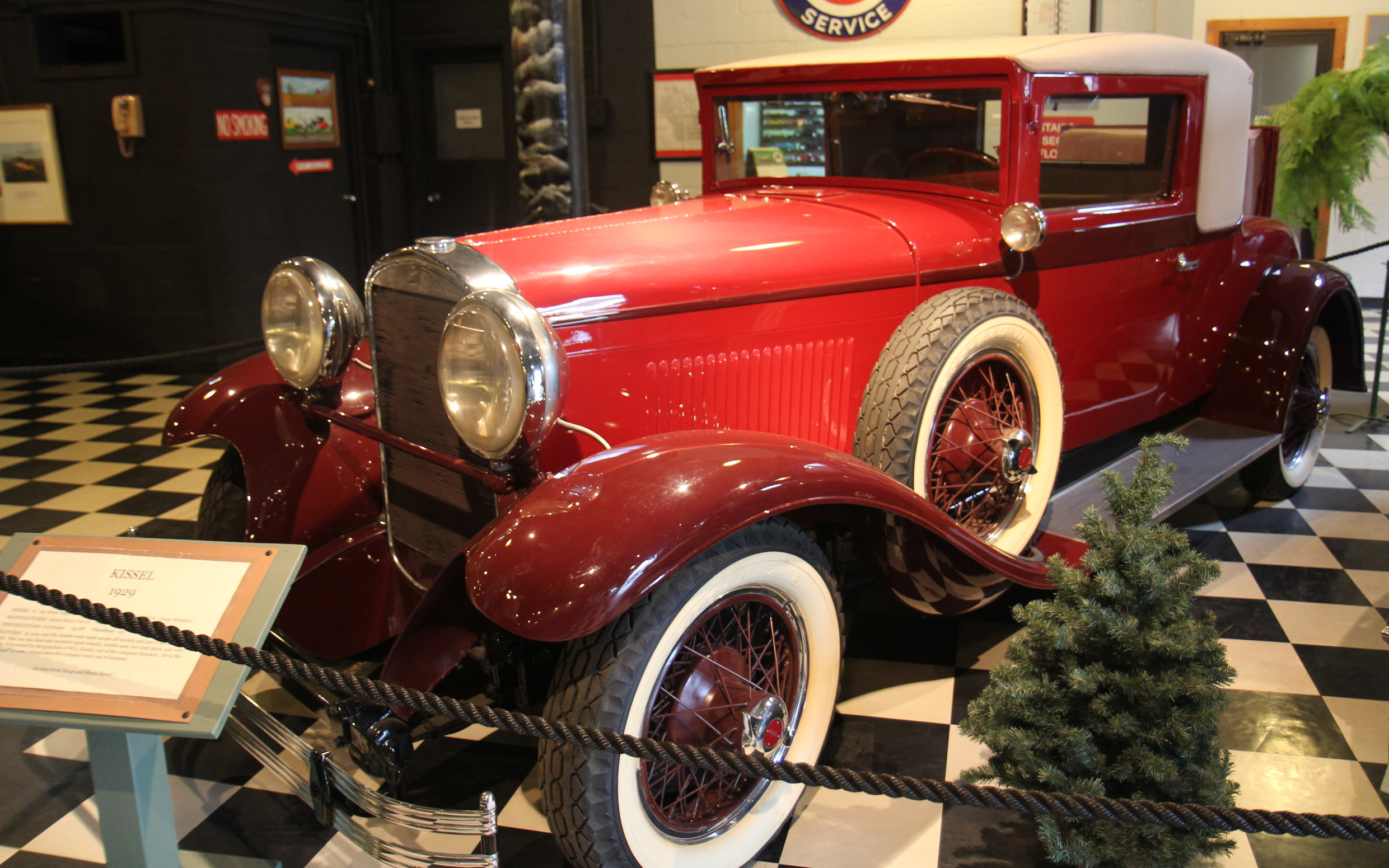 1929 Kissel 8-95 White Eagle on display at the Wisconsin Automobile Museum.